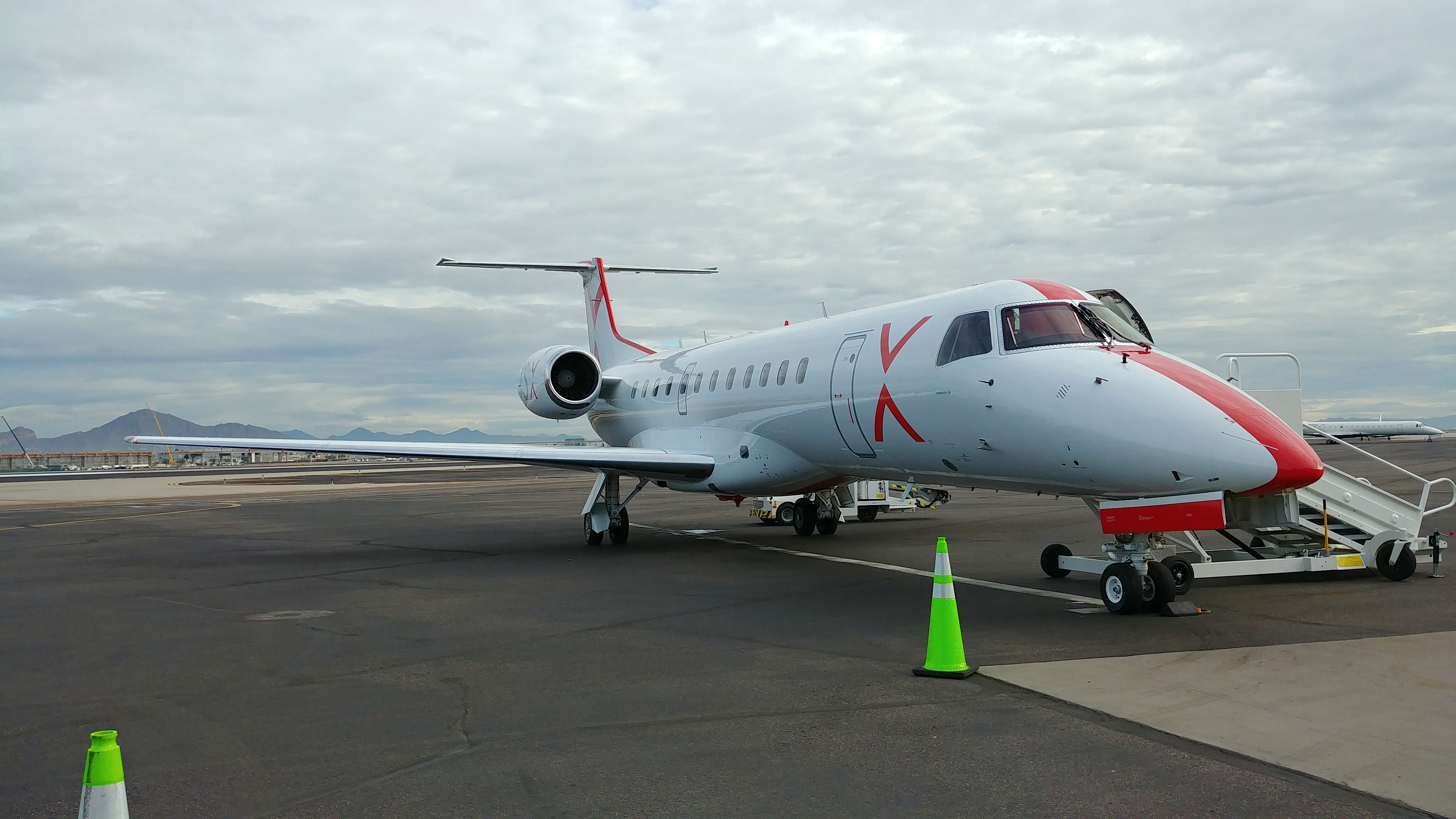 JSX jet boarding passengers at Phoenix Skyharbor airport.